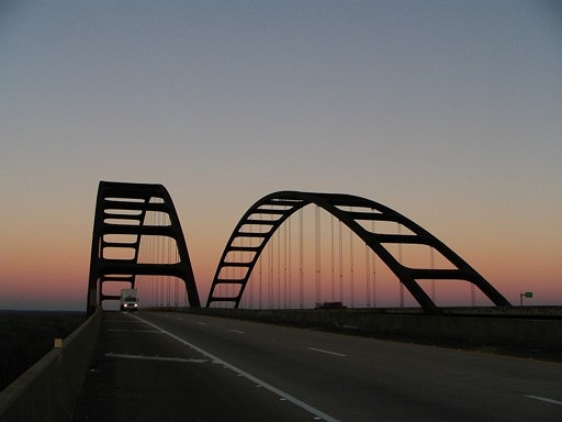 General Walter K. Wilson Bridge carrying Interstate 65 over the Mobile River north of Mobile, Alabama.